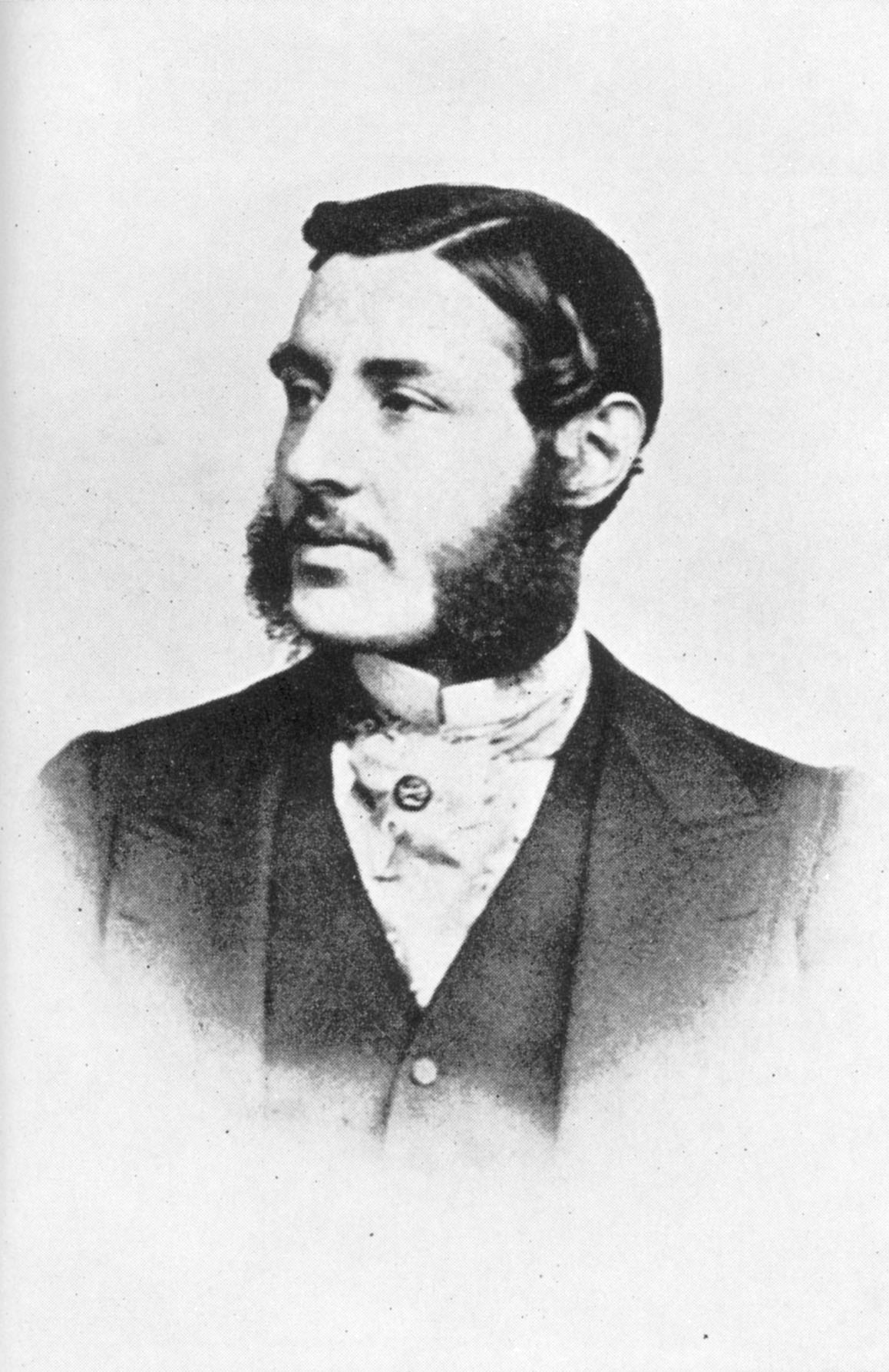 Portrait of Léon Carvalho (1825–1897), a French impresario and stage director